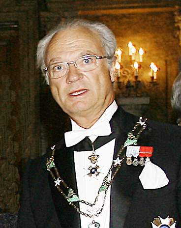 king Carl XVI Gustaf of Sweden